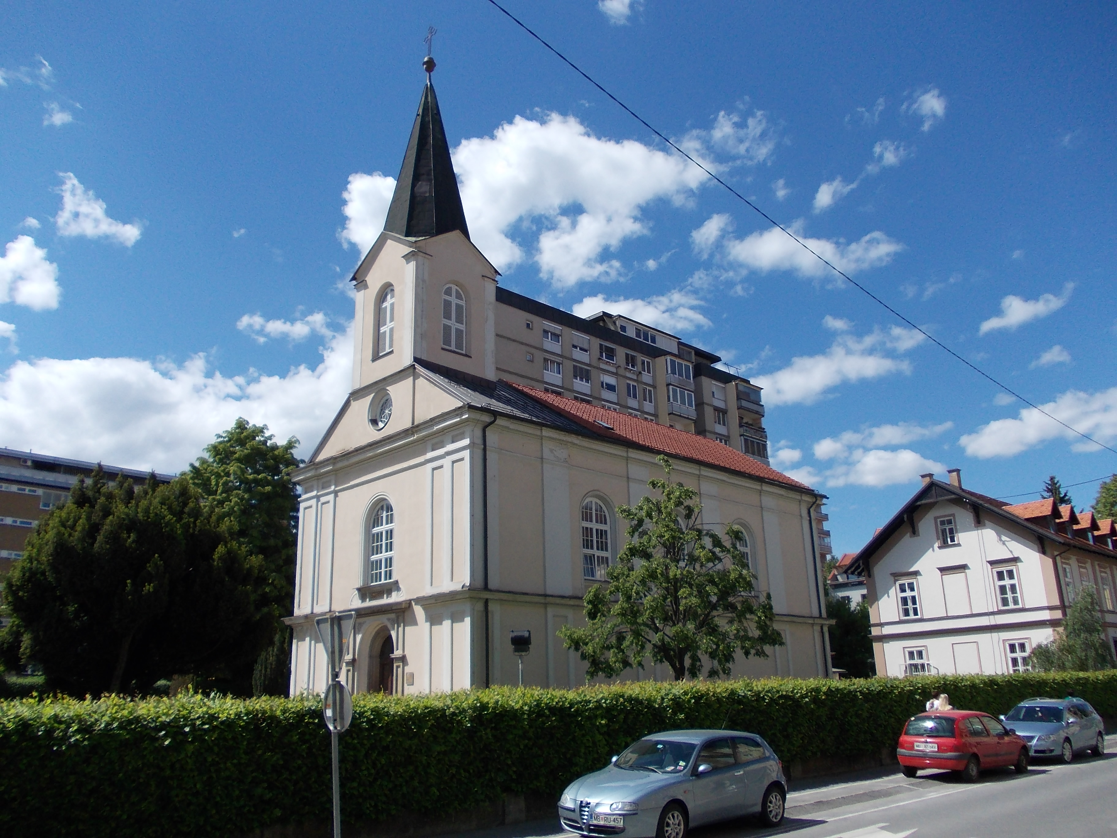 Lutheran Church, Maribor